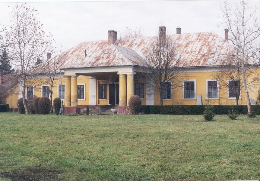 Sarkad, Hungary, Palace, aerial photography This is a photo of a monument in Hungary. Identifier: 2578